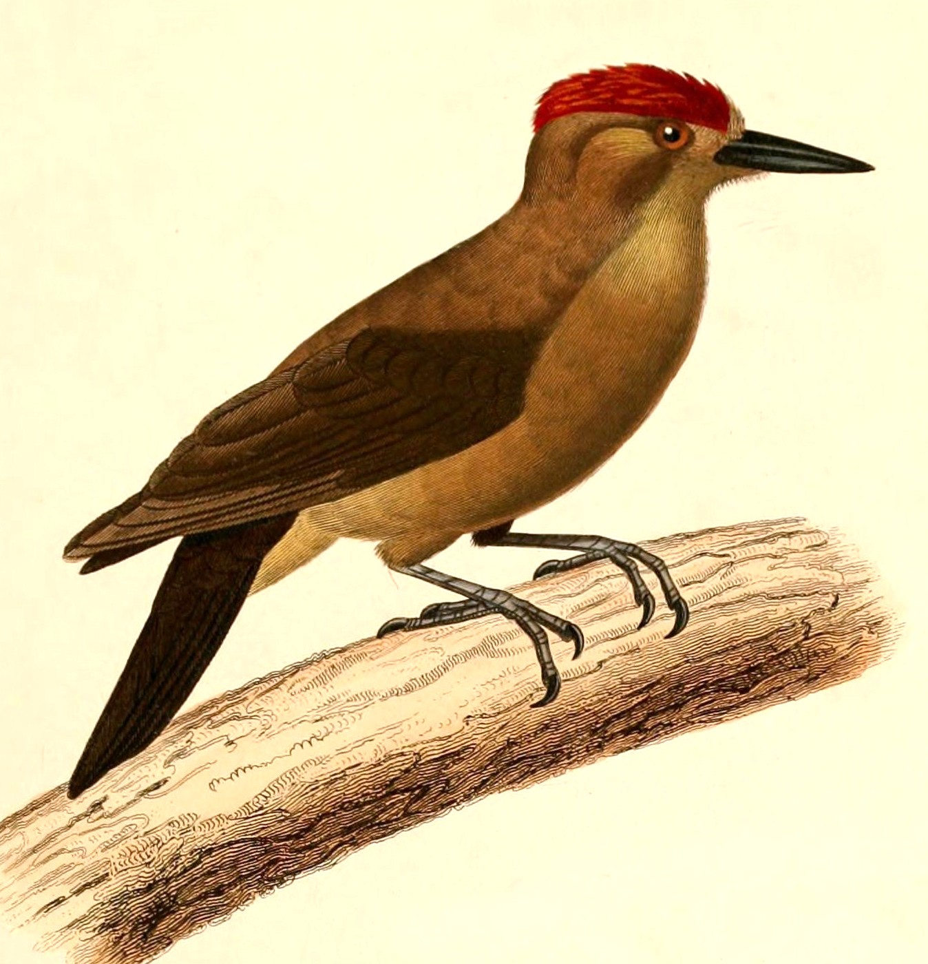 « Picus fumigatus » = Picoides fumigatus (Smoky-brown Woodpecker)